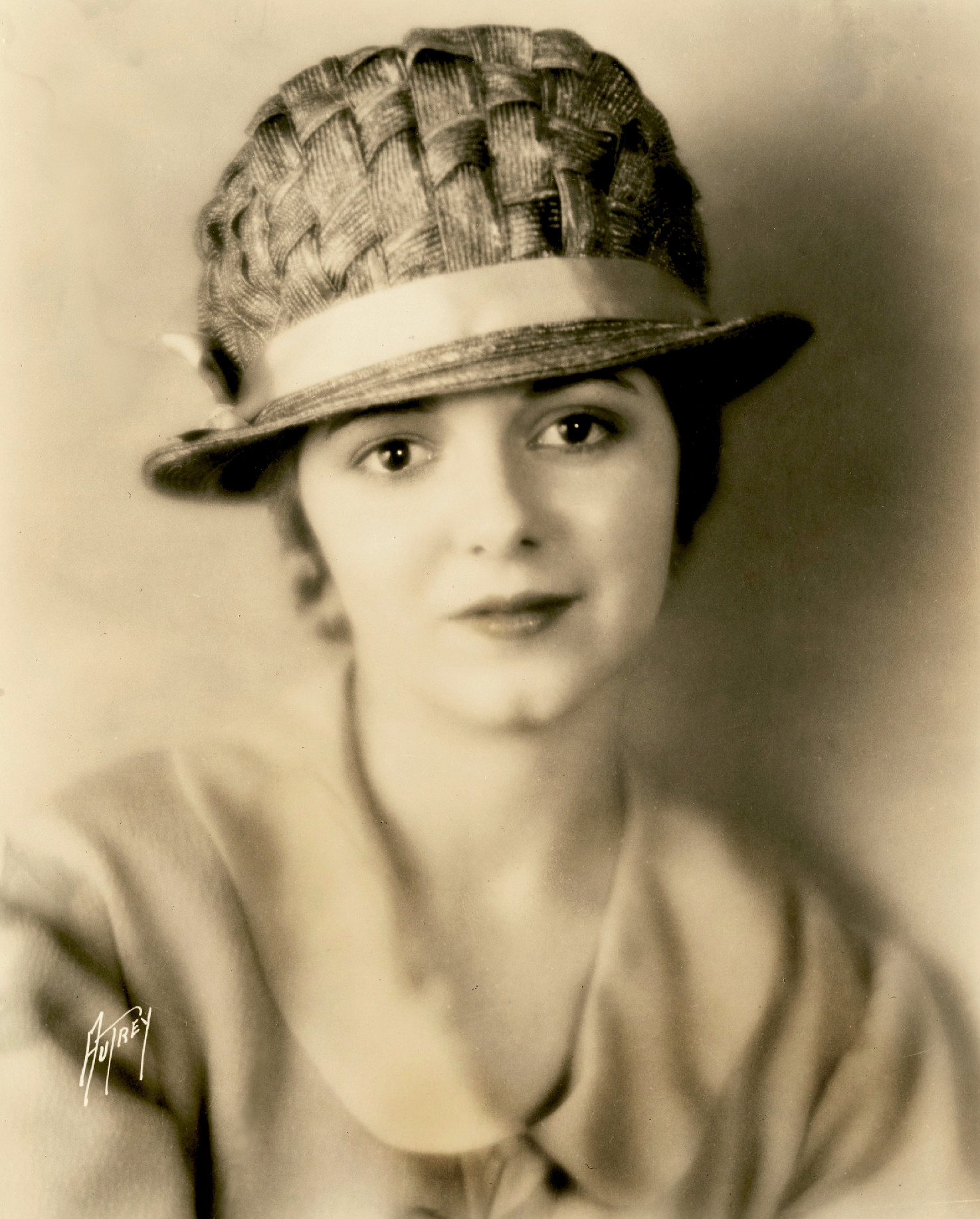 Publicity photo of Janet Gaynor taken for the film "Sunrise", also known as "Sunrise: A Song of Two Humans" (1927)